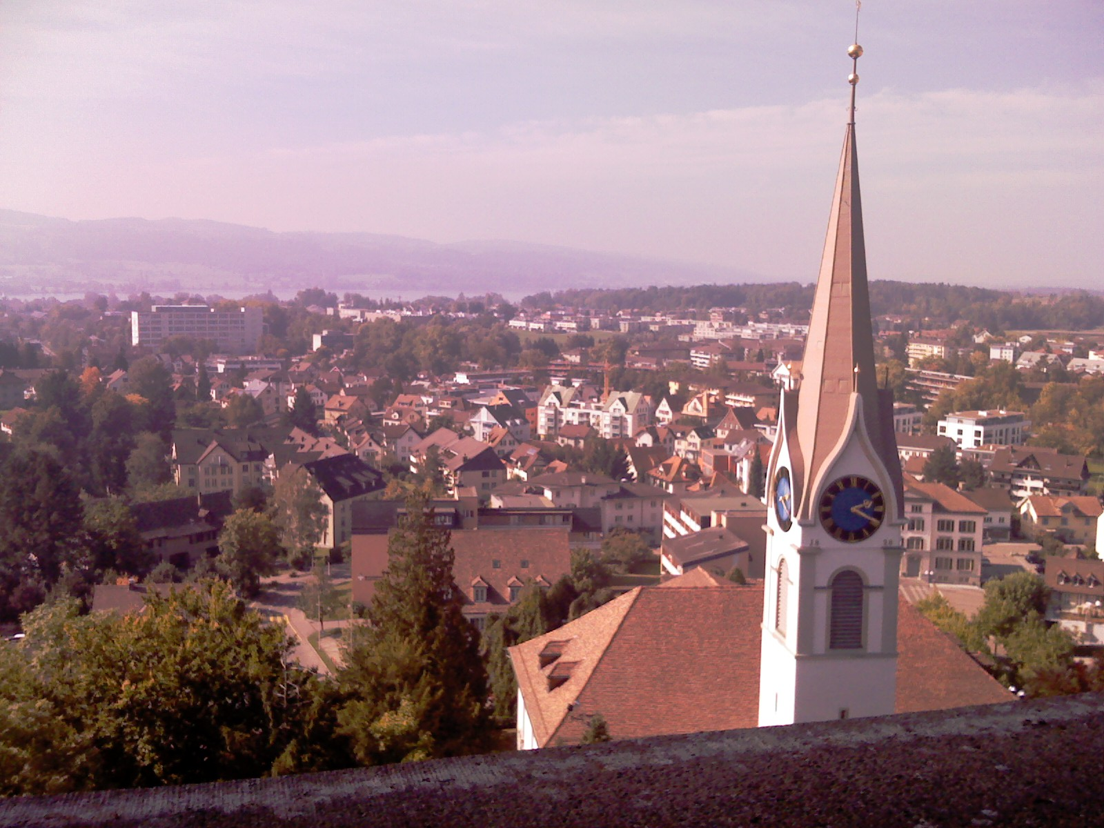 Uster - View of church from the tower of Castel Uster - Lake Greifensee can be seen in the background